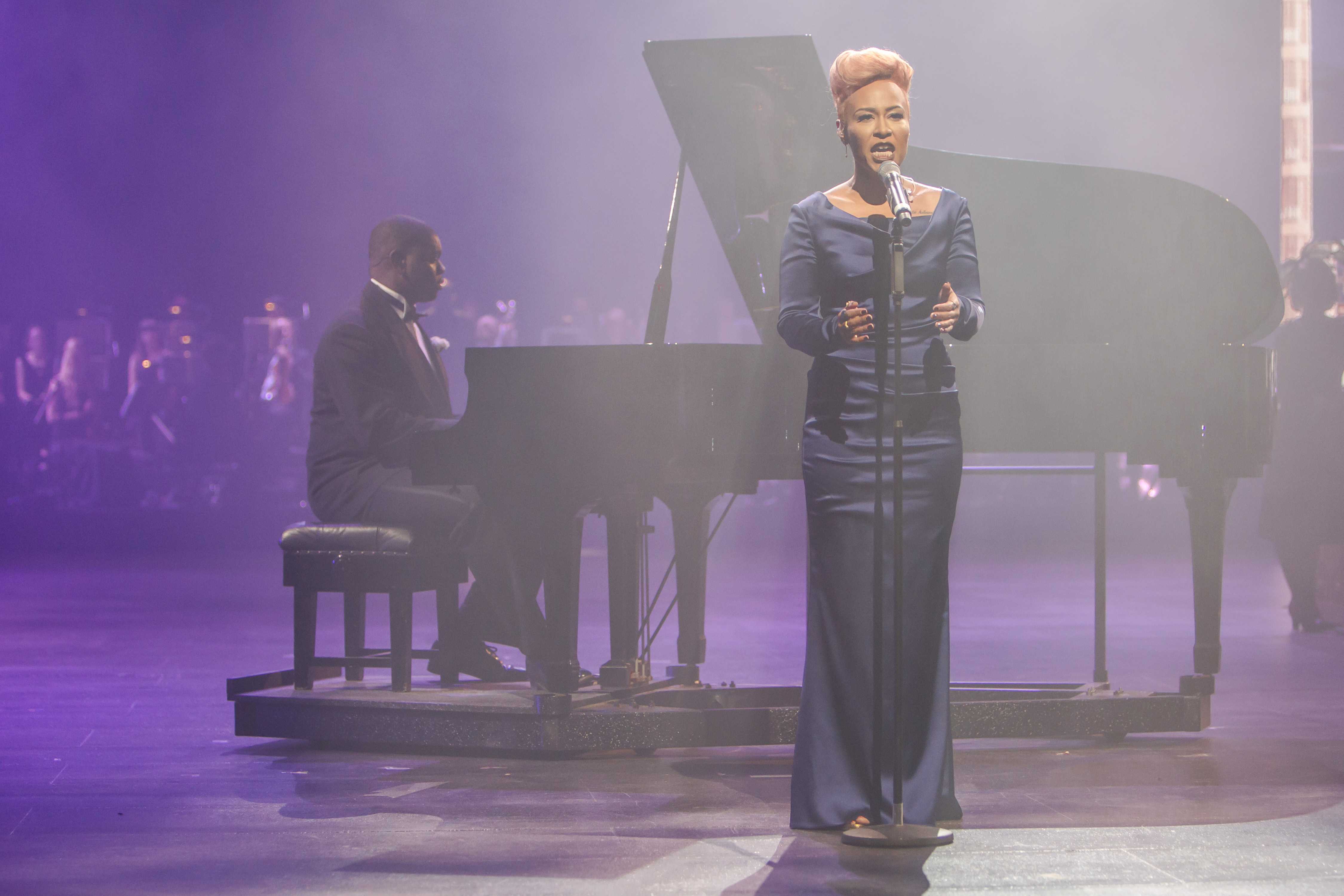 Emily Sande - Jaguar Takes Over London to Launch the New XE to the World - Norman Dewis